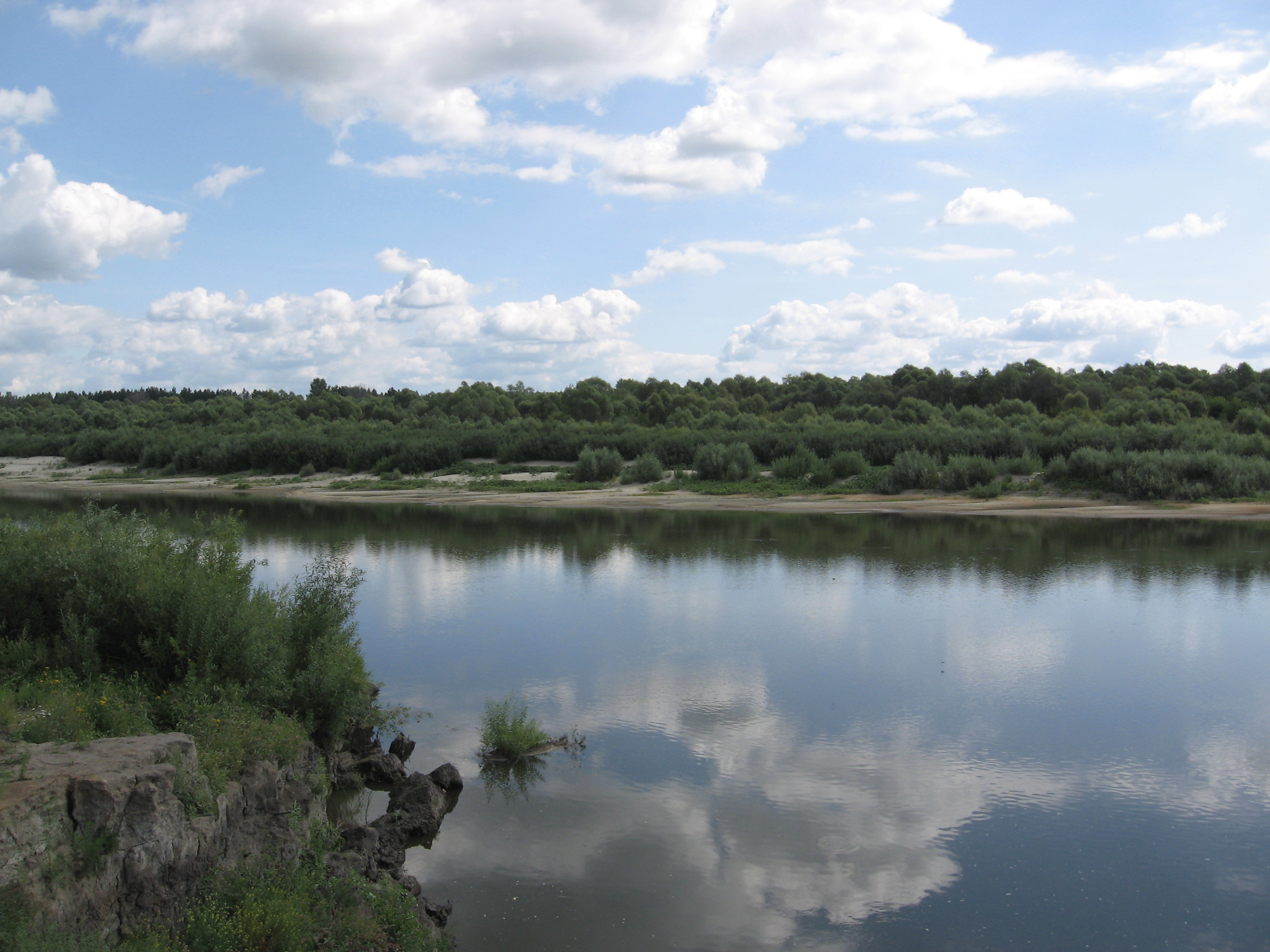 Sura River near the town of Alatyr, in south-western Chuvashia